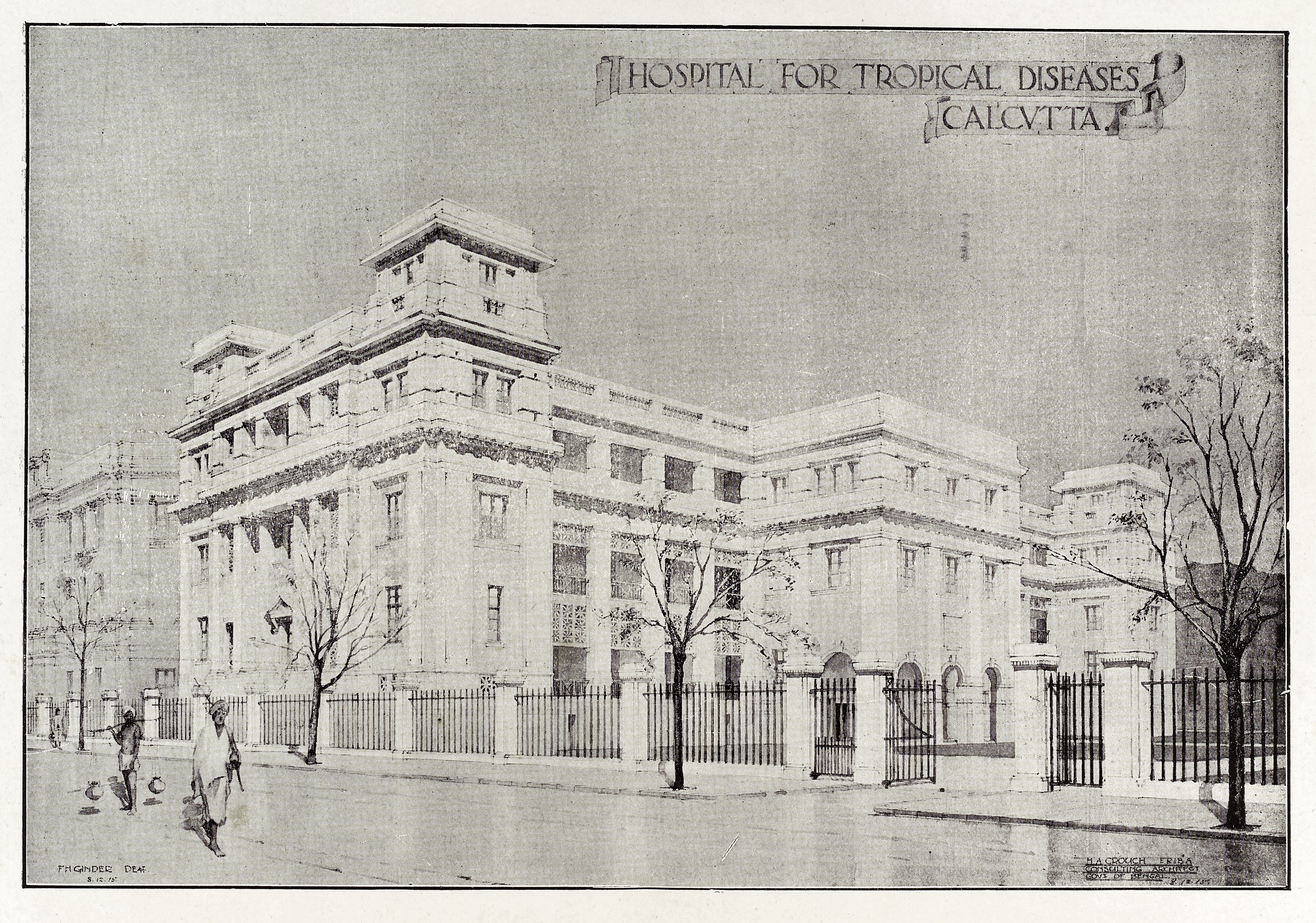 Hospital for Tropical Diseases, Calcutta Wellcome Images